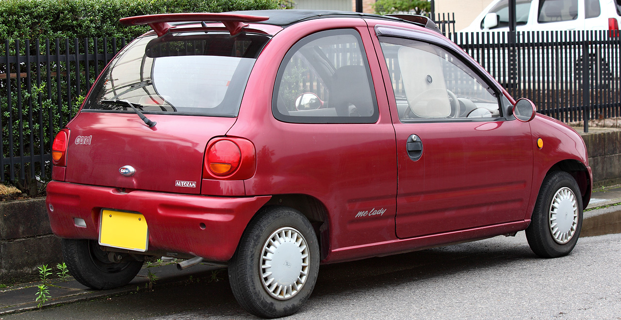 Mazda Carol 660 Canvas top Me Lady (AA6PA)